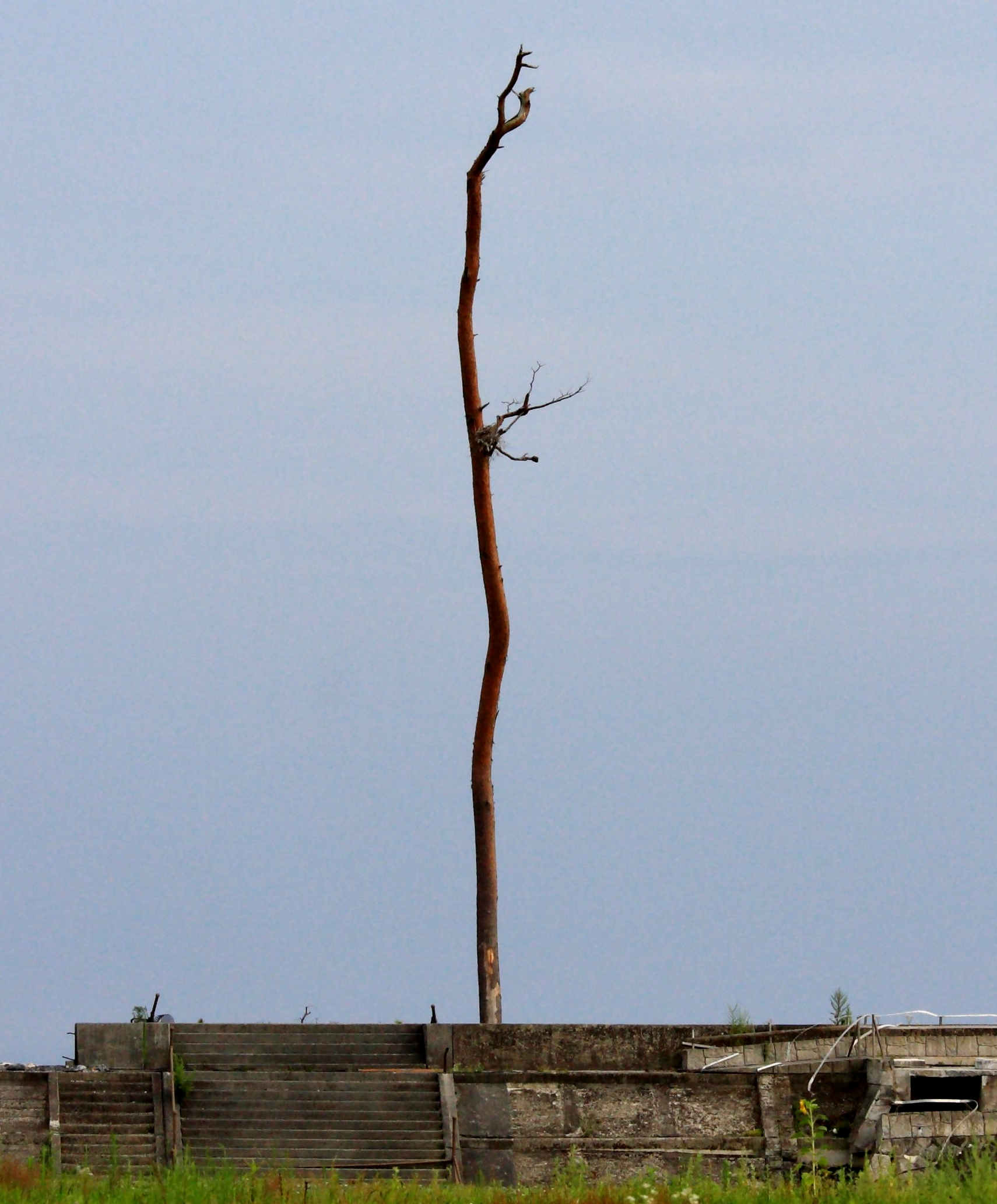 Another miracle pine tree in Rikuzentakata